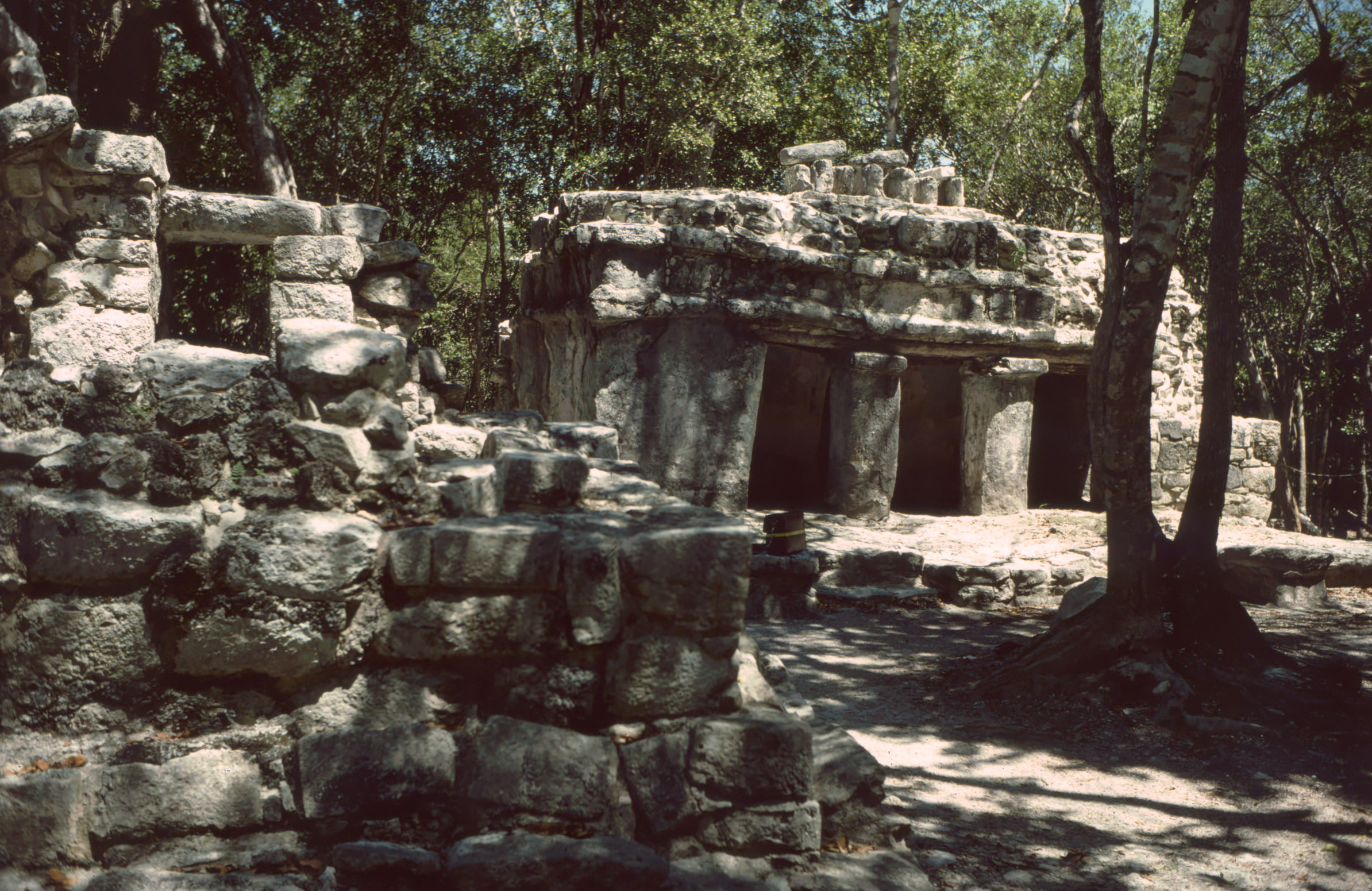 Xelha, Quintana Roo, Mexico: Late Postclassic Temples